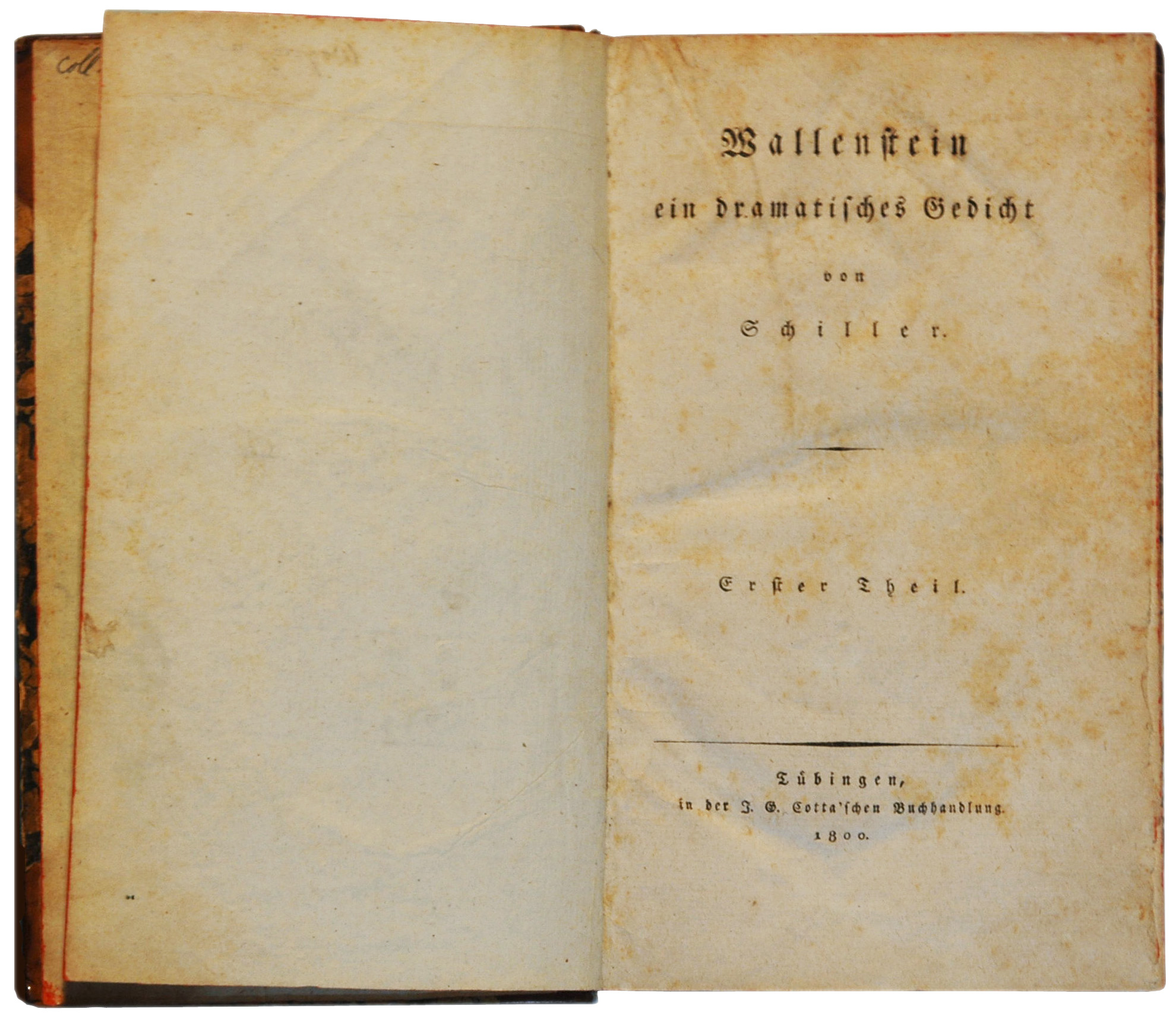 Friedrich Schiller: Wallenstein, Tübingen: J. G. Cotta 1800, first edition